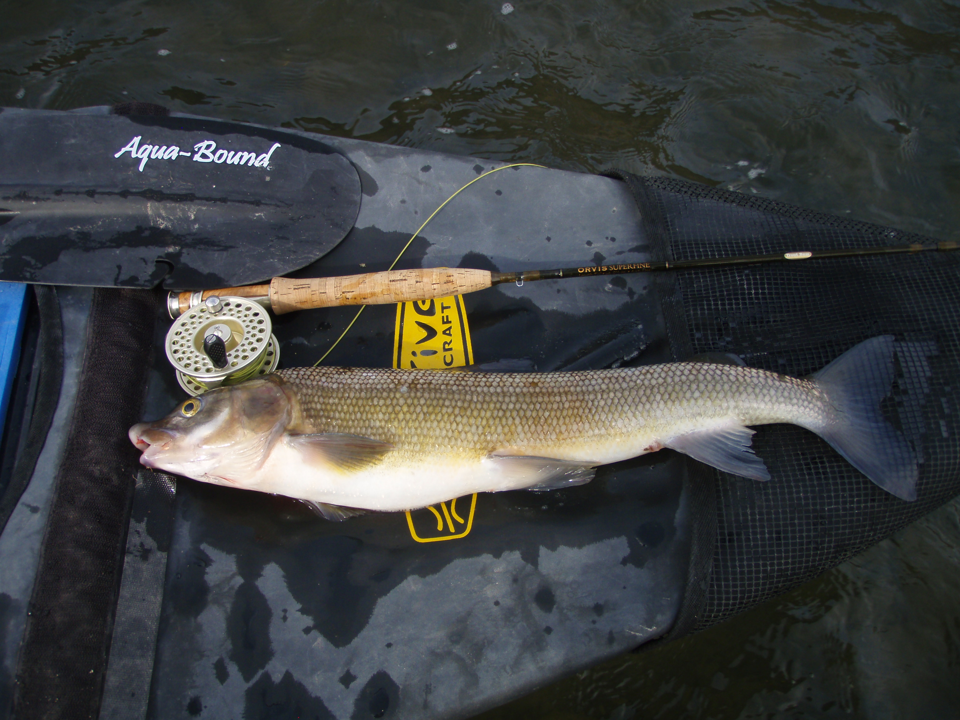 20" Mountain Whitefish taken from the Yellowstone River near Corwin Springs, MT on March 7, 2010 (Released)